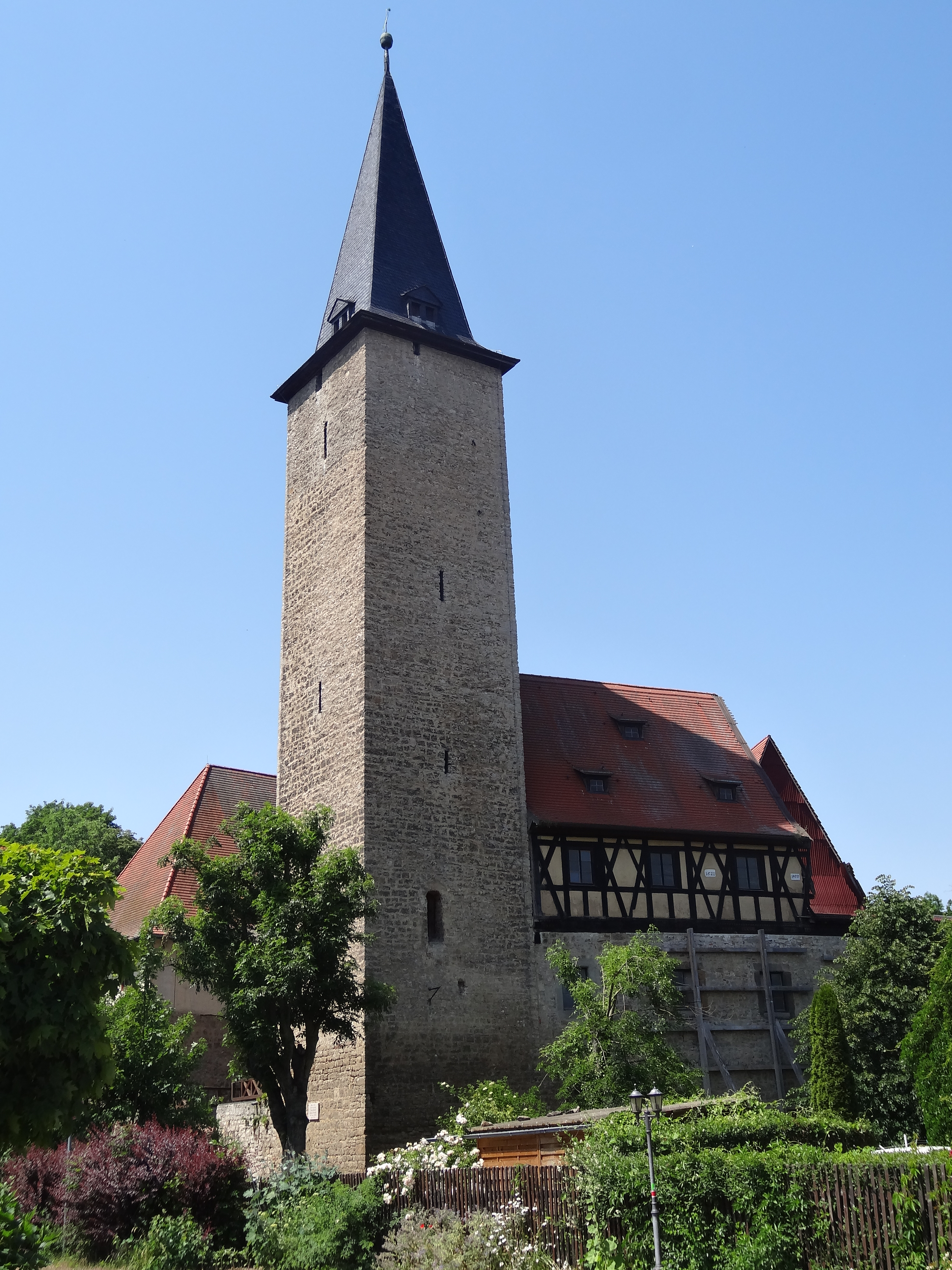 Water castle in Niederroßla, Thuringia, Germany